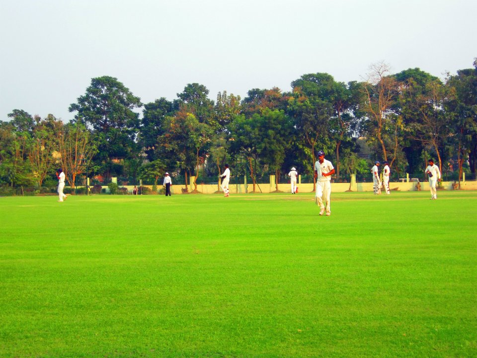 Main ground at the Salt Lake campus leased out to CAB hosting a Ranji trophy match between Bengal and MP